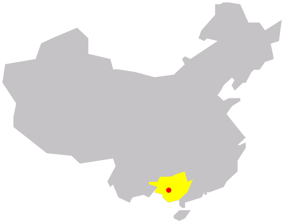 Description: position of Nanning in the Chinese autonomous region of Guangxi Source: own work Date: December 2005 Author: --Immanuel Giel 12:21, 15 December 2005 (UTC) Other versions: none